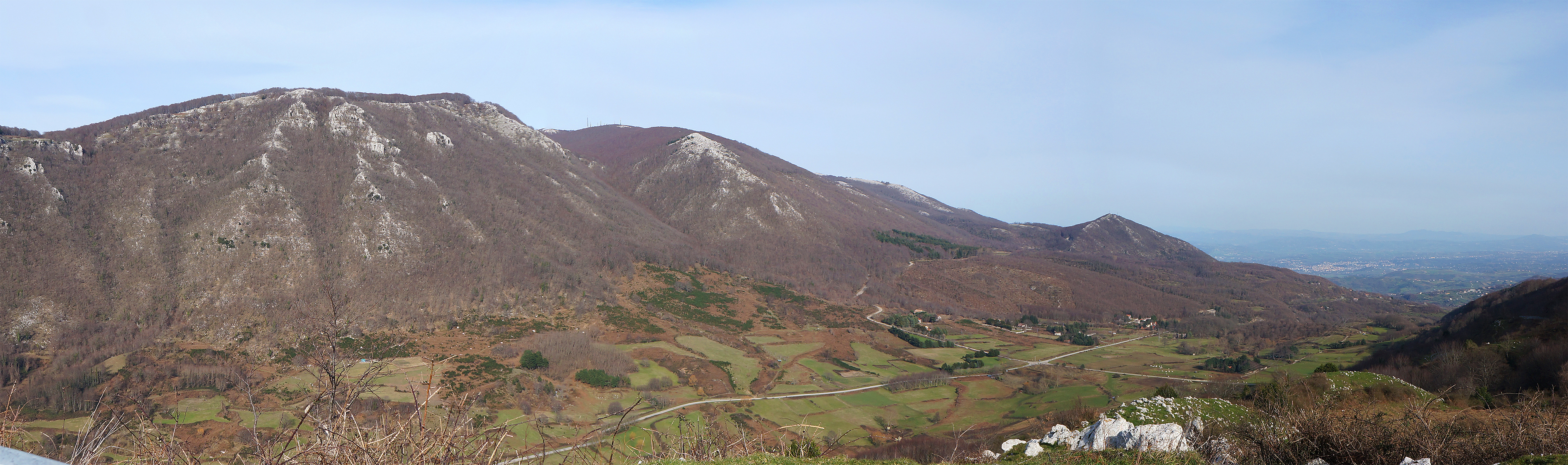 The Piana di Prata, a plain area running in the middle of the Taburnus massif